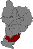 Location of Soriguera in Pallars Sobirà